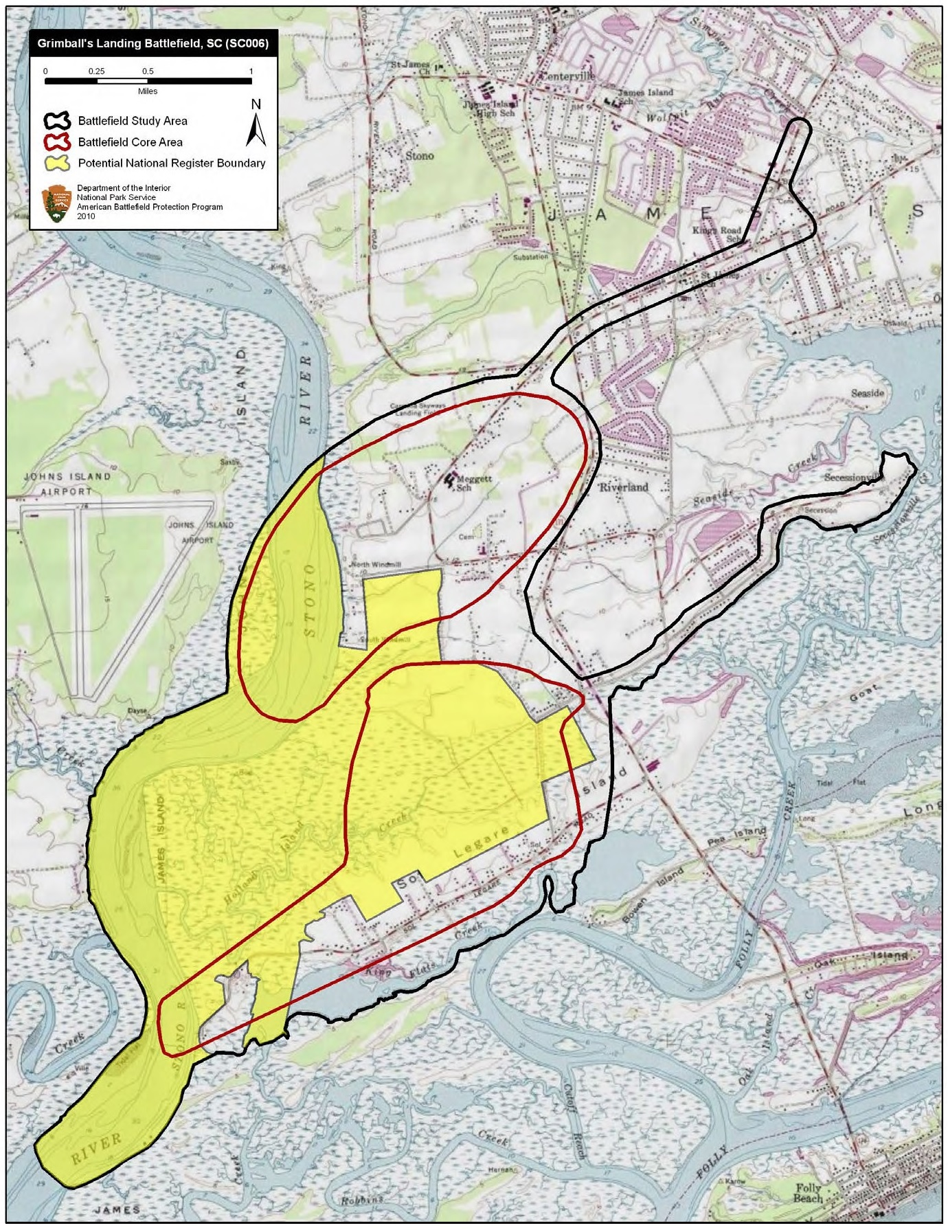 Map of battlefield core and study areas. The ABPP extended the 1993 Study Area to include US naval maneuvers on the Stono River as well as the approach of US Army forces from Battery Island. The revised Study Area also includes the Confederate advance into battle from their camps beyond the Artillery Crossroads, and the locations of fortifications around Secessionville. The expanded Core Area now includes the fields of fire associated with US gunboats and armed transports near Stevens’ Landing, as well as the field of fire from the Federal battery located north of Holland Island Creek. The ABPP also added the location of skirmishing near the northern edge of the river's causeway to the Core Area.